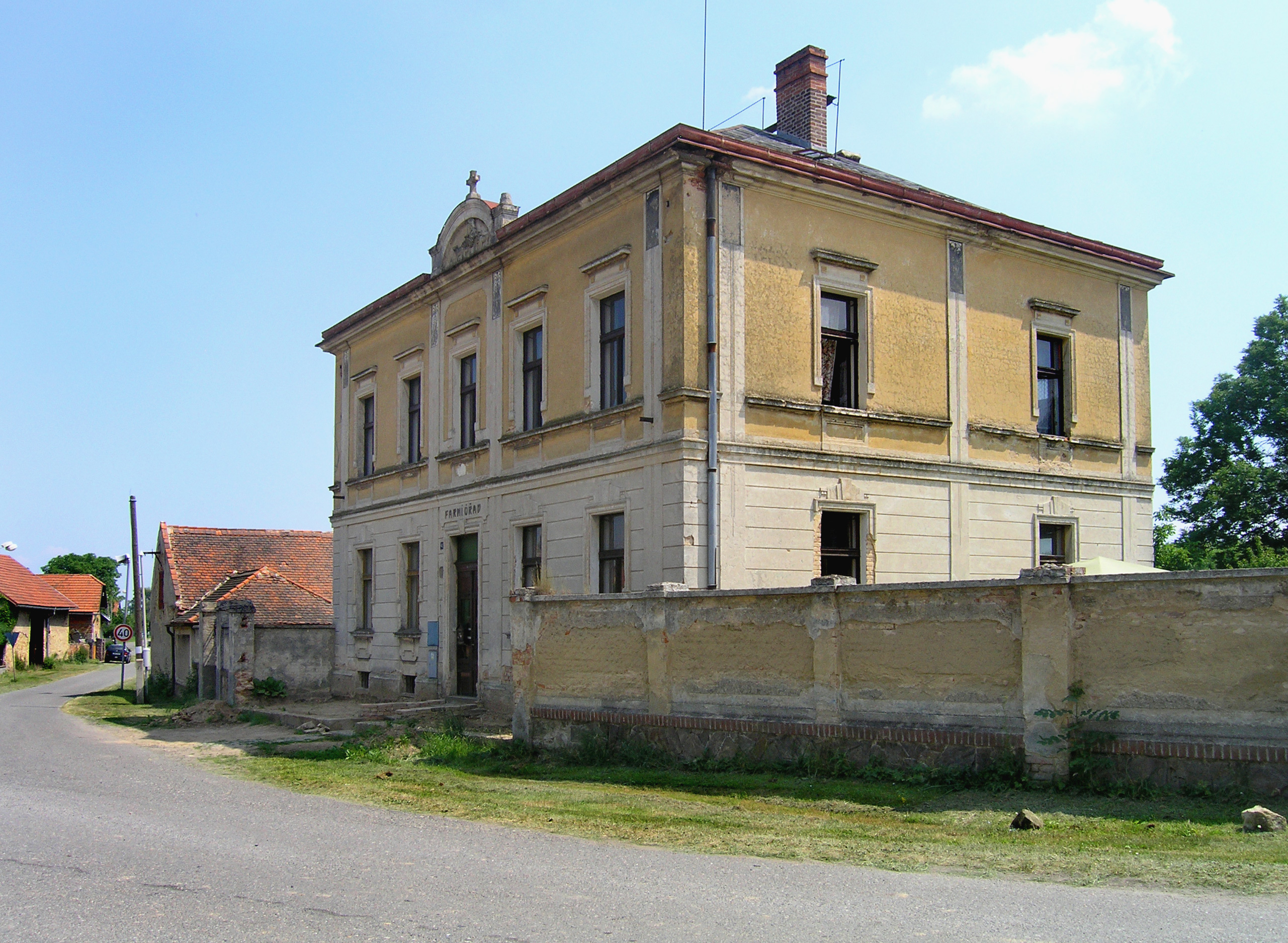 Old presbytery in Malotice, Czech Republic